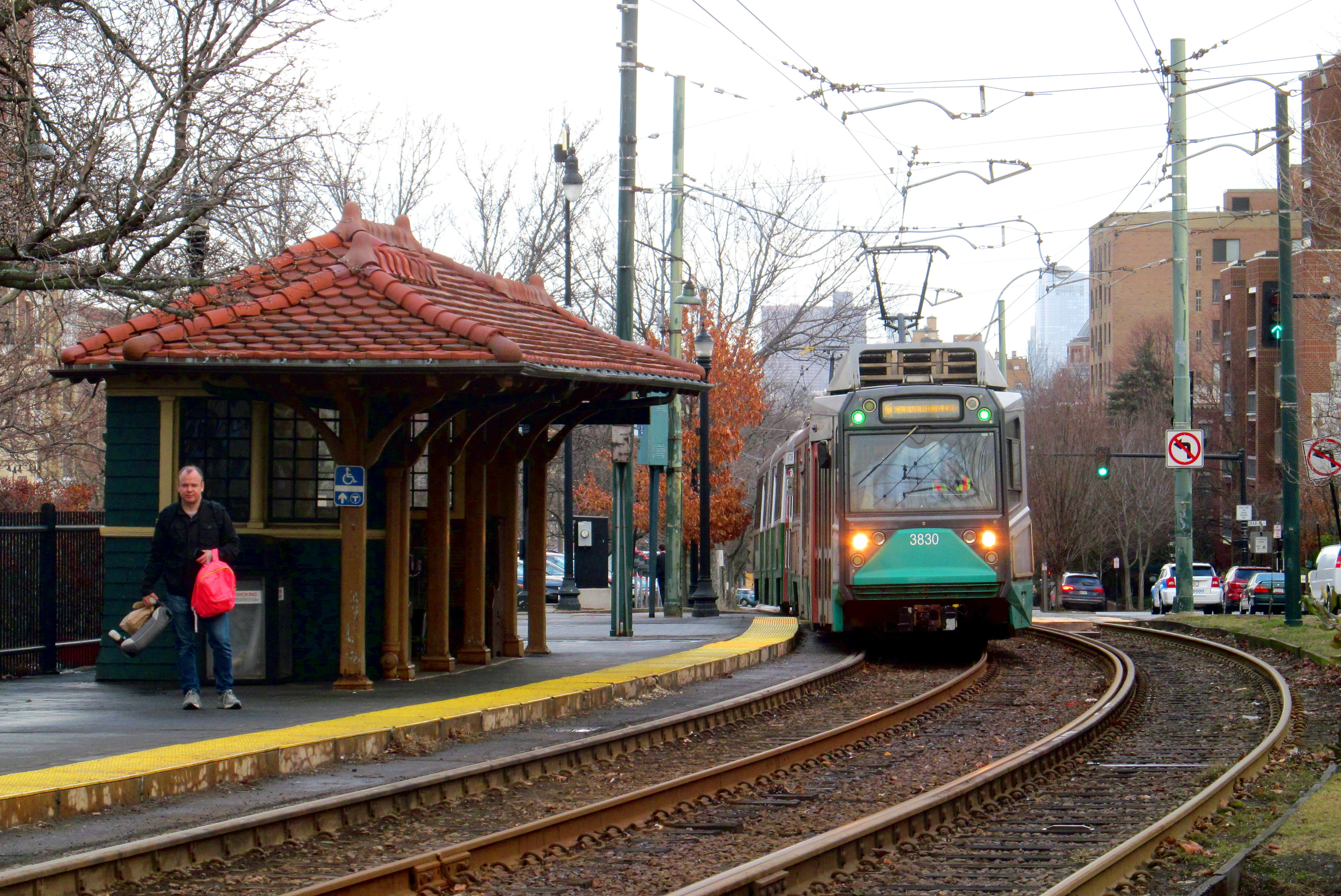 An outbound train at Coolidge Corner station in February 2017